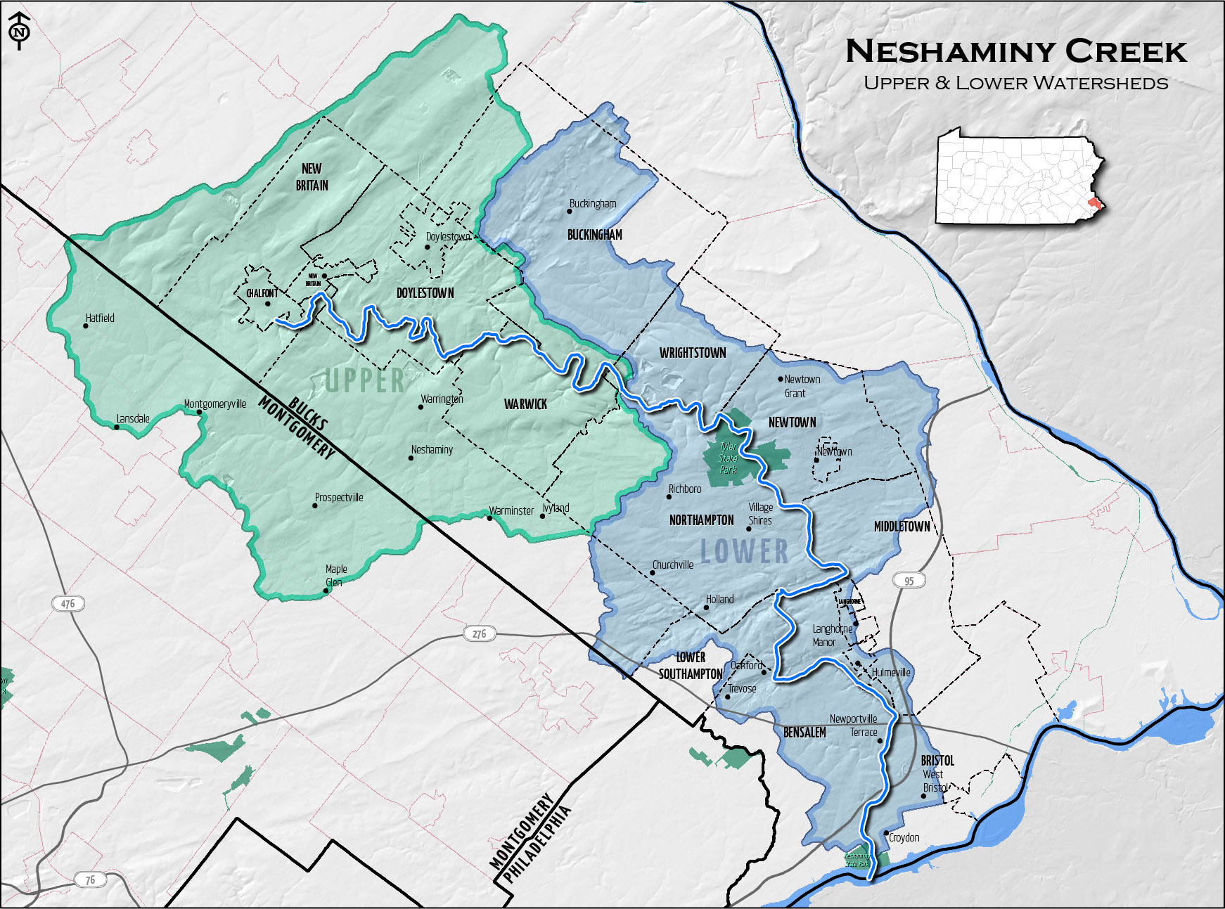 Name: Neshaminy Creek PCS: NAD 1983 UTM Zone 18N Sources: US Geological Survey (National Hydrography Dataset, National Map/National Elevation Data) US Census TIGER/Line Shapefiles Pennsylvania Dept. of Transportation Pennsylvania Dept. of Conservation and Natural Resources